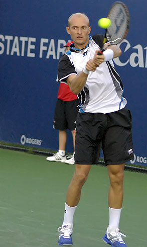 Nikolay Davydenko playing at the 2008 Rogers Cup